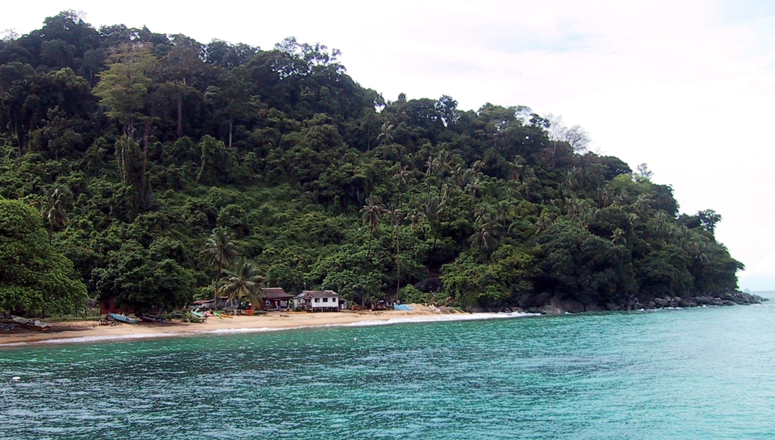 Huts on Tioman